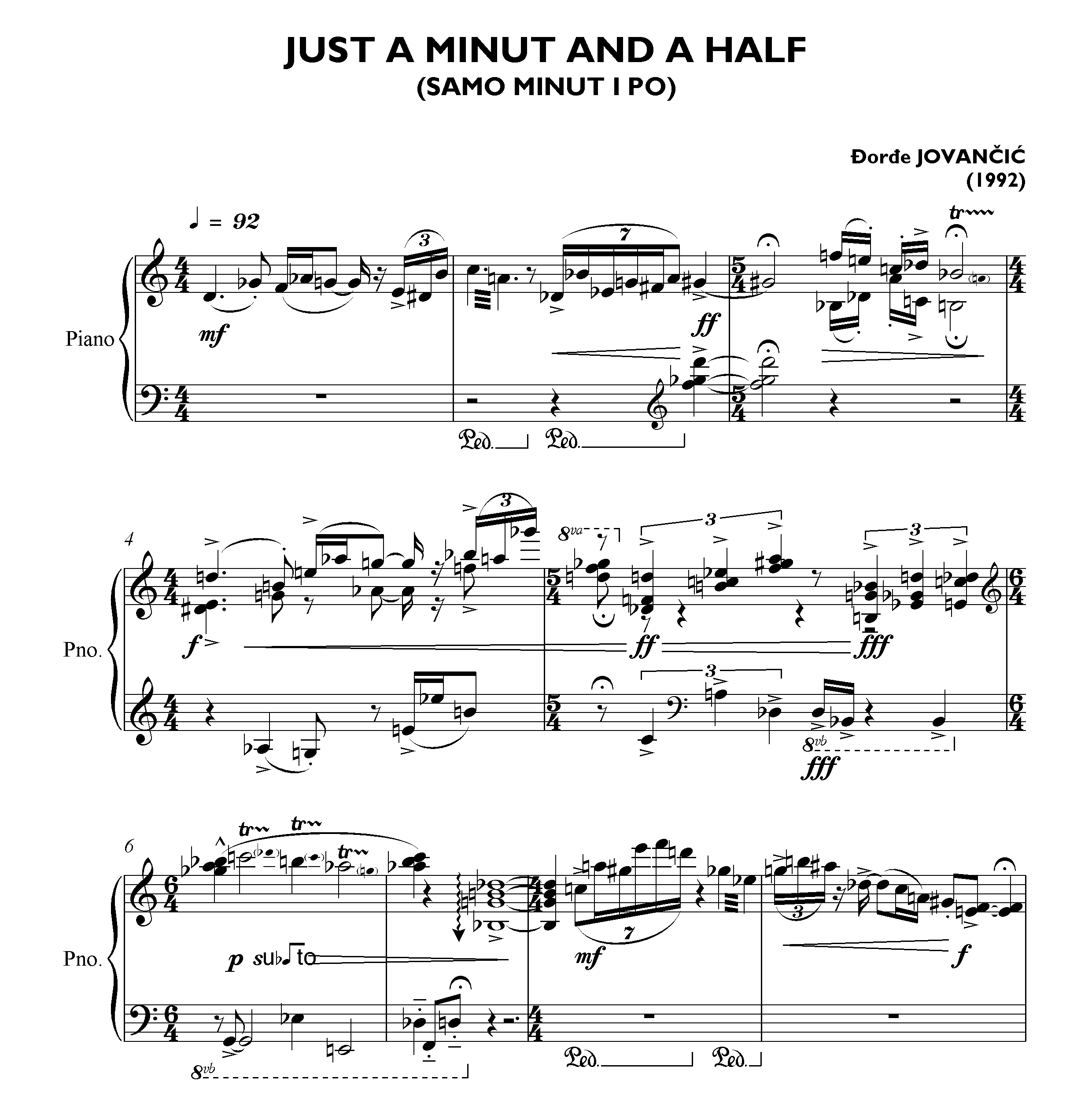 Dj. Jovancic - Just a minute and a half (preview)